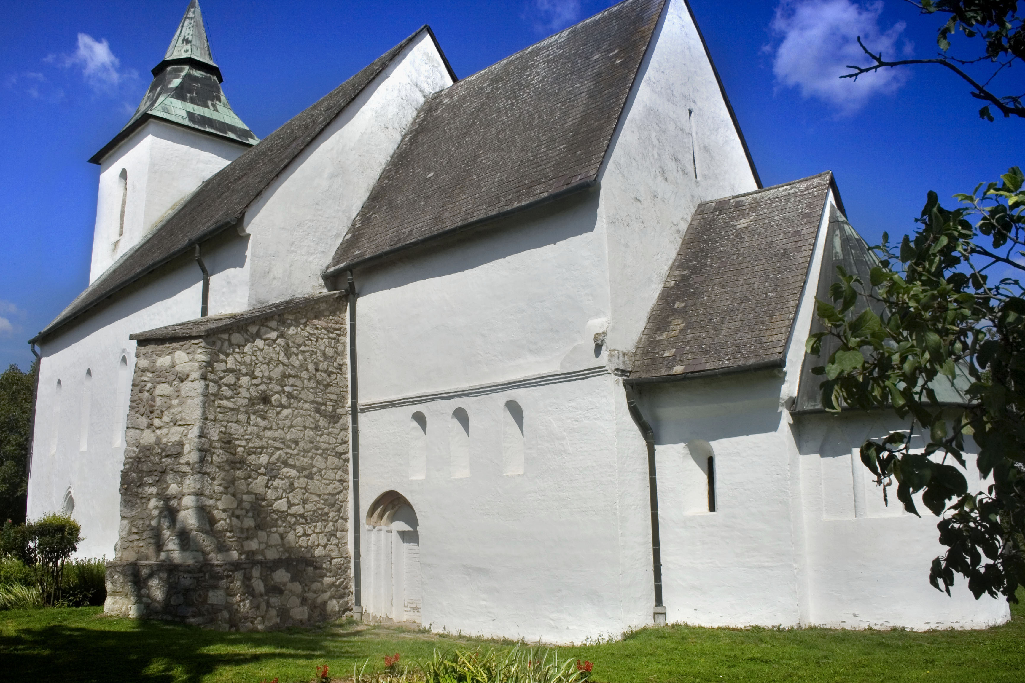 Hungary, County Zemplen, Vizsoly Reformed Romanesque church - XIII Centhury